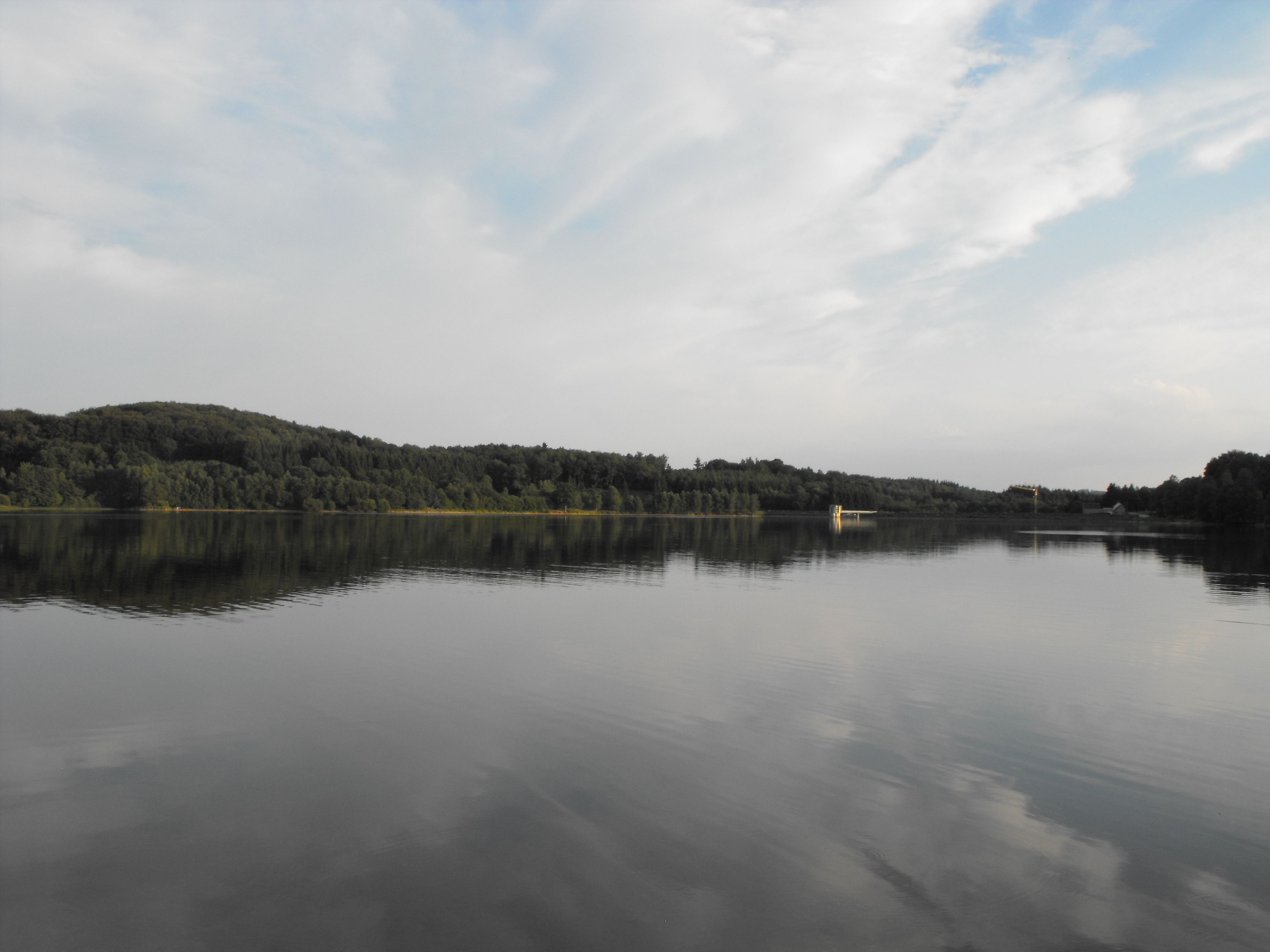 Lake Chamboux